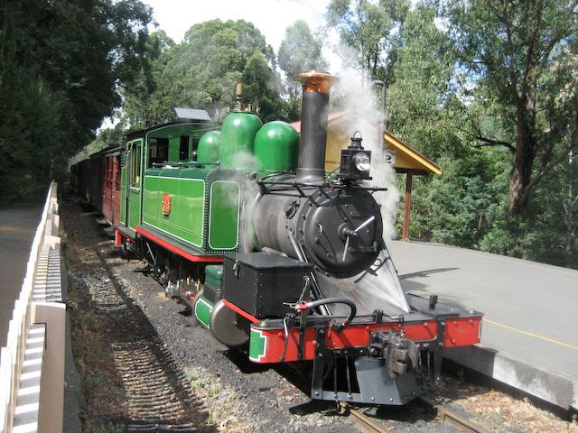 Locomotive 6A at Lakeside station on the Puffing Billy railway, Victoria, Australia